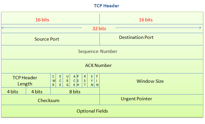 TCP Header